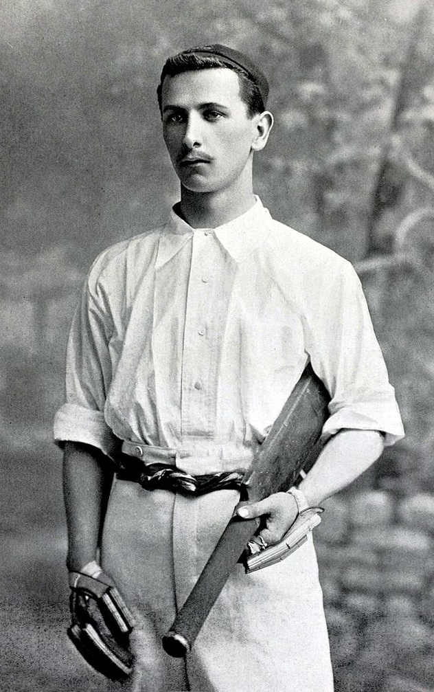 Sport, Cricket, Circa 1895, John Thomas Tyldesley, Lancashire, (1895-1923) and England, (1898-1909) ..